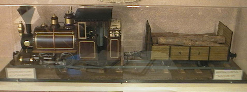 A model of a locomotive of Nykarleby–Kovjoki railway in Finland